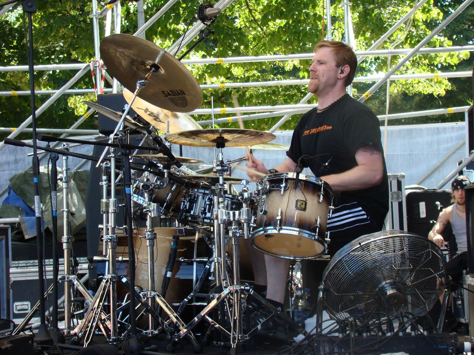 Sean Reinert of Cynic, 2007